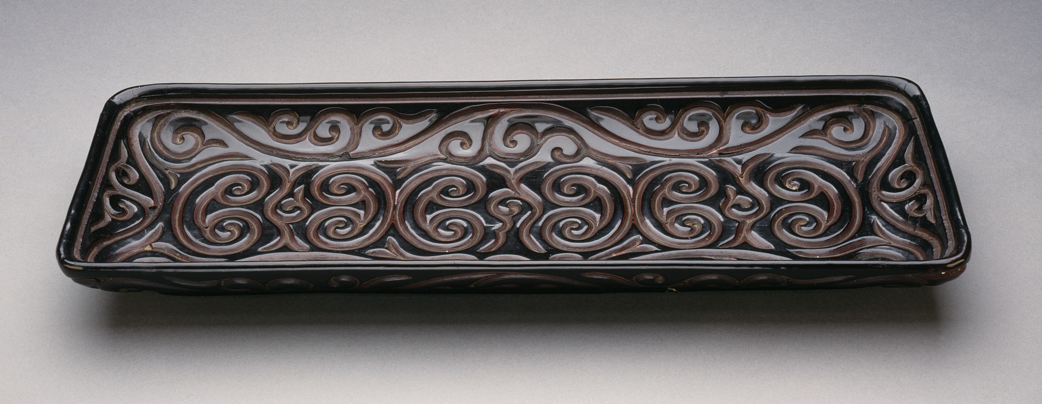 China, Chinese, Middle Ming dynasty, about 1450-1550 Furnishings; Serviceware Carved black and red lacquer (tixi) on wood core 1 3/8 x 14 3/8 x 5 1/4 in. (3.49 x 36.51 x 13.34 cm) Gift of Mr. and Mrs. John H. Nessley (M.79.89.2) Chinese Art